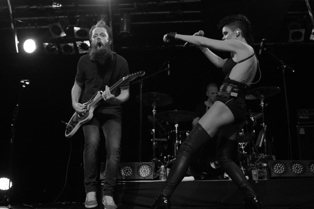 Aqua plays at the Hi-Fi Sydney.